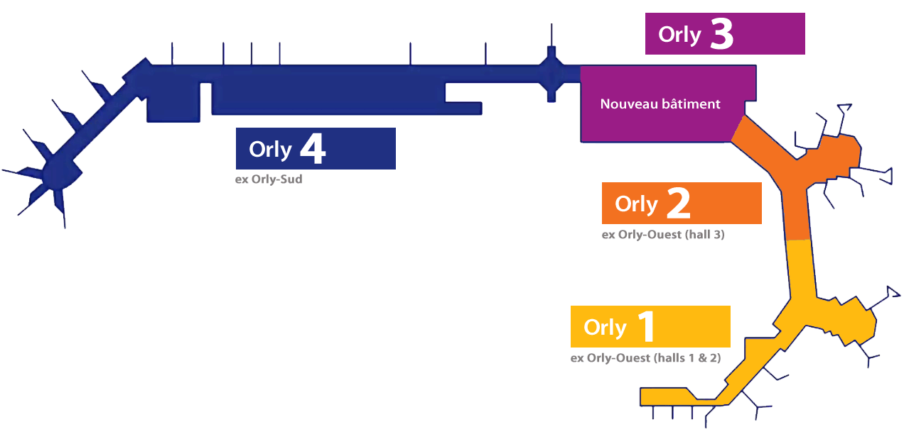 New